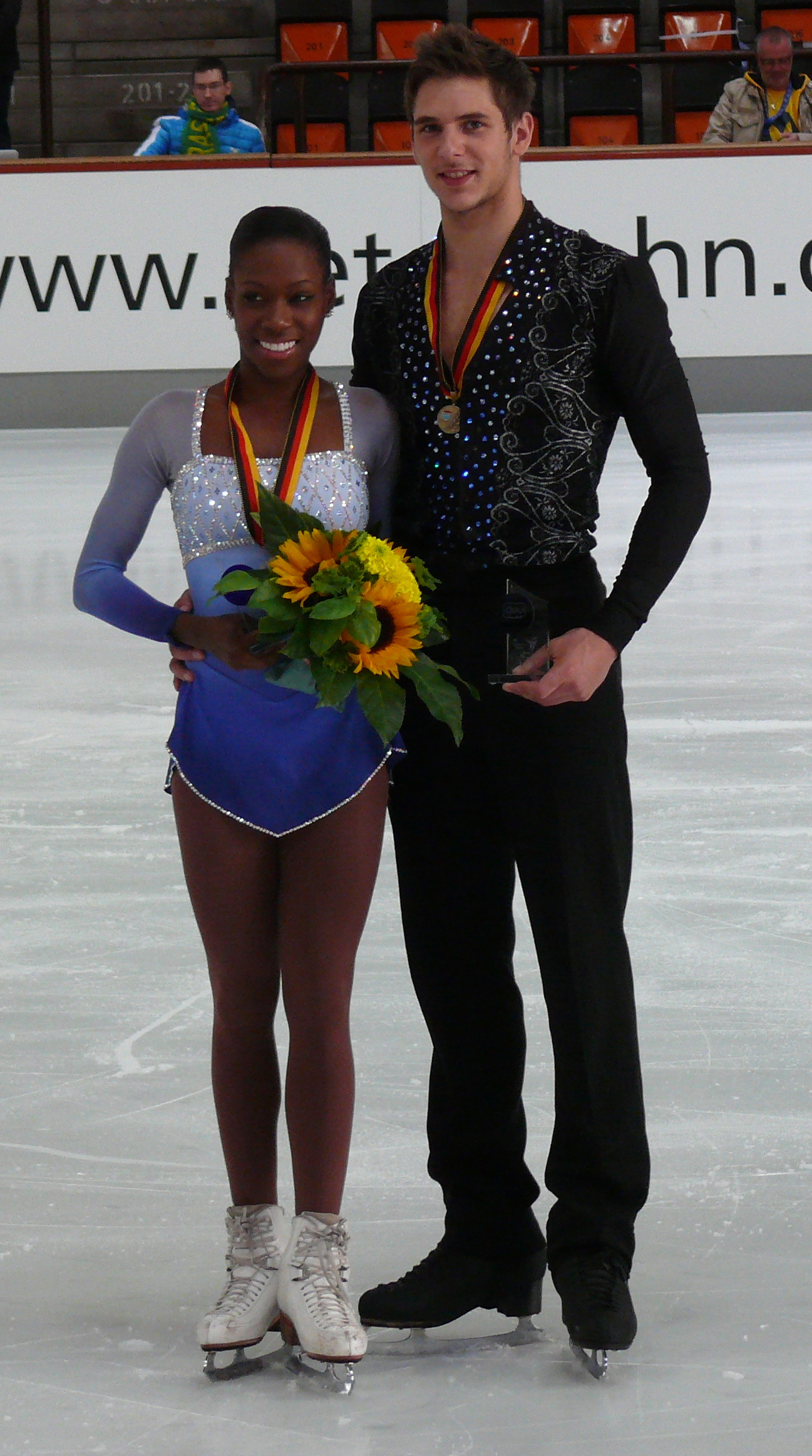 Vanessa James and Morgan Ciprés (FRA) at the victory ceremony at the Nebelhorn Trophy 2012 in Oberstdorf/Germany